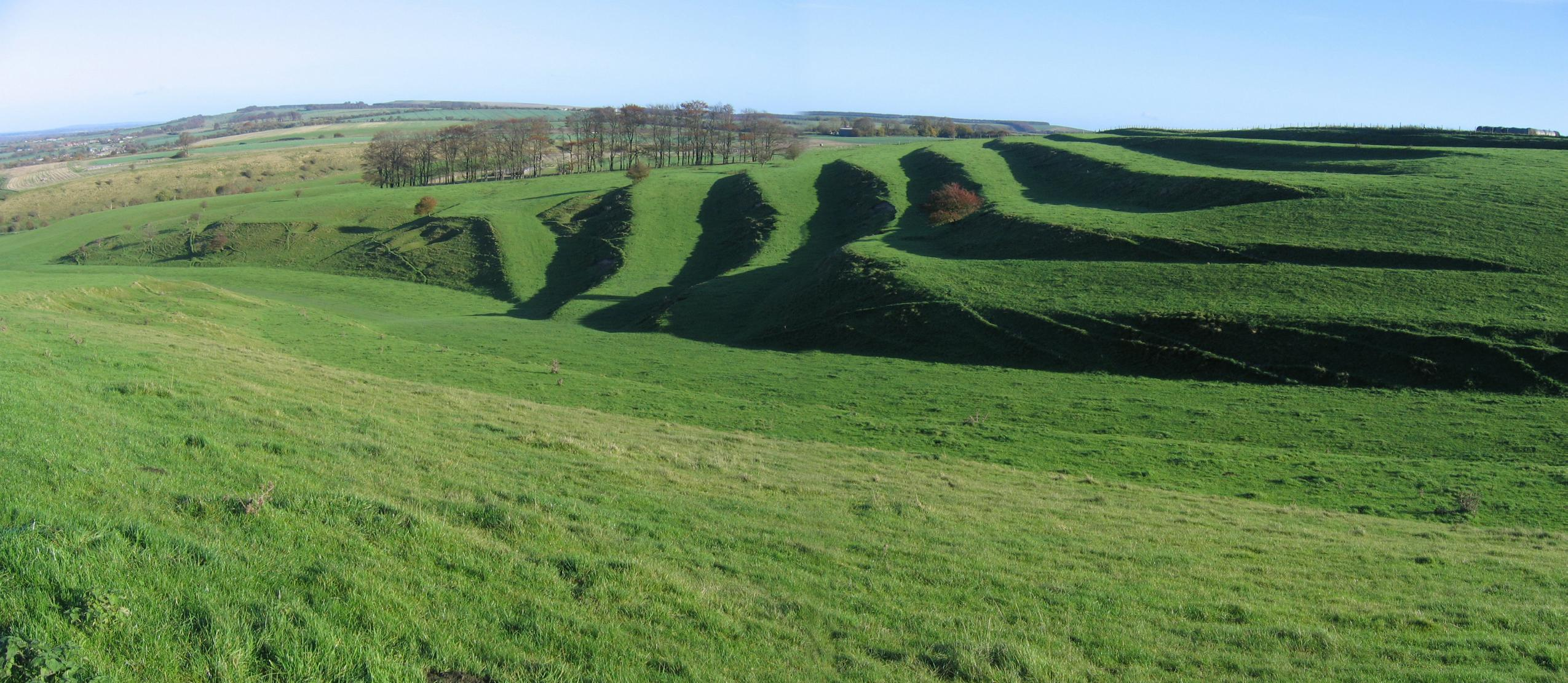 The Lynchets above Bishopstone in Wiltshire, United Kingdom